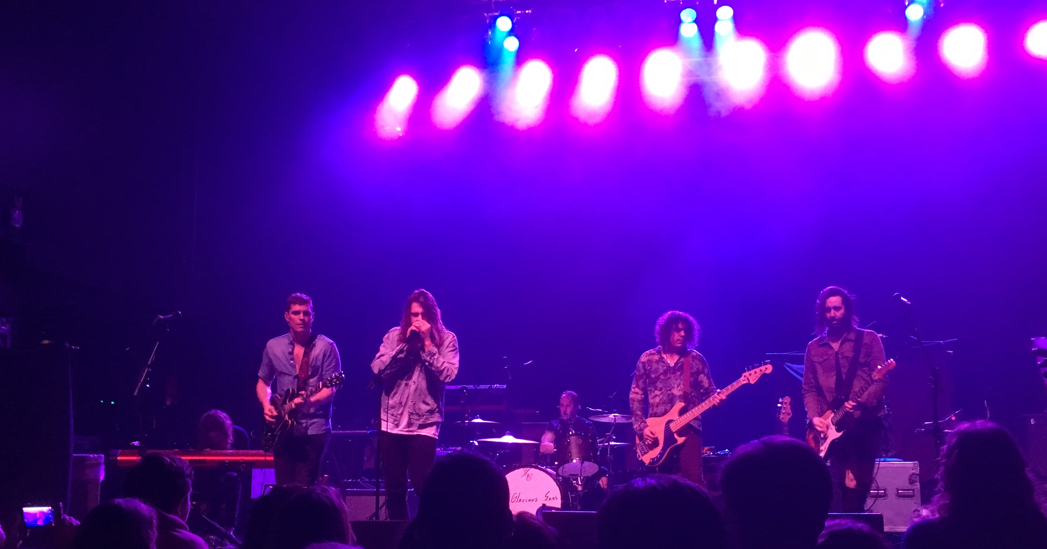 The Glorious Sonsco performing live at Express Live! in Columbus Ohio on April 15, 2018